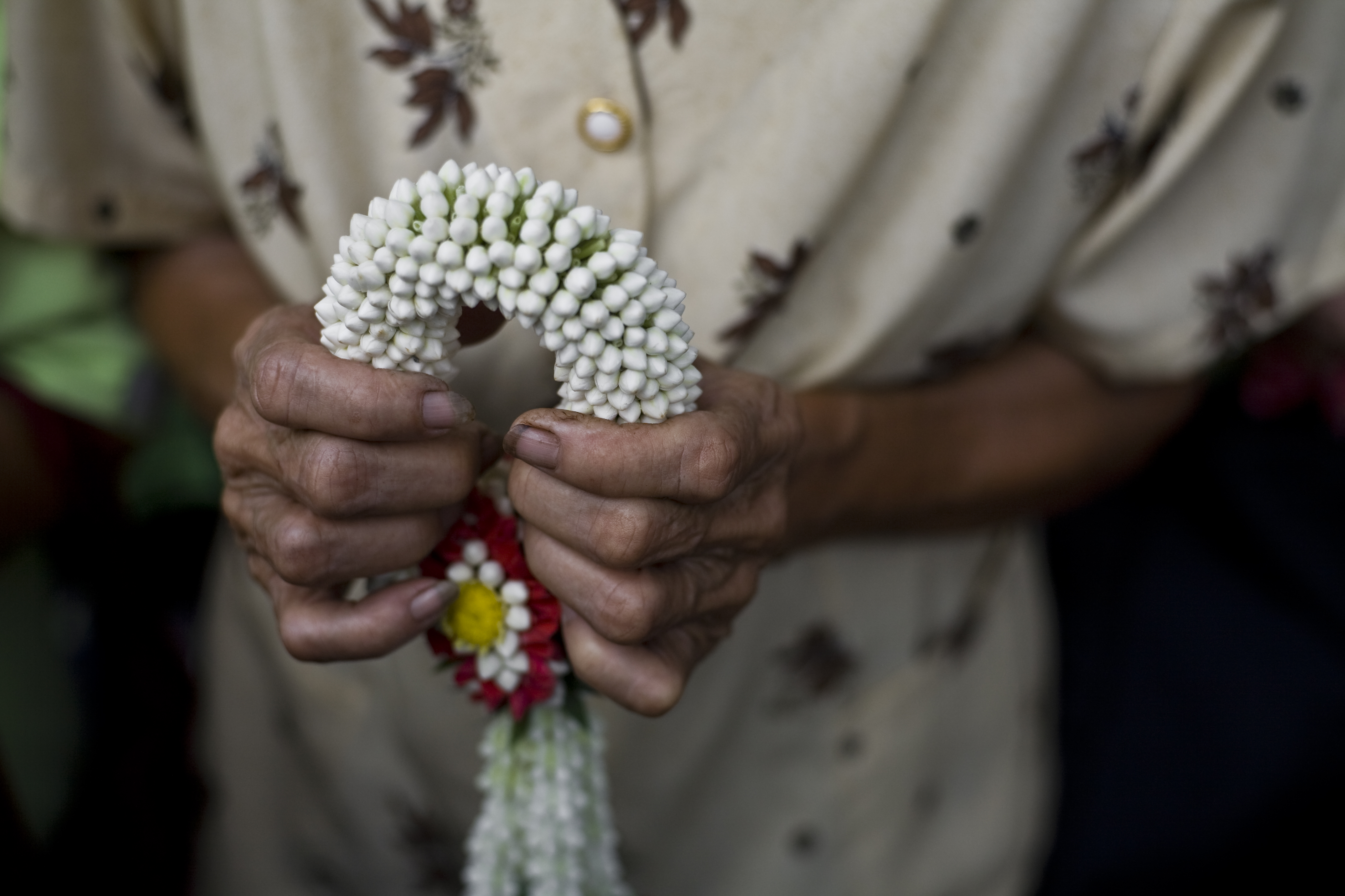 (The Official Site of The Prime Minister of Thailand Photo by พีรพัฒน์ วิมลรังครัตน์)